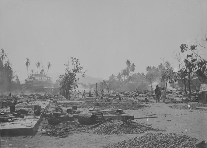 The havoc after a fire in Sibolga